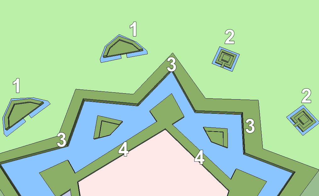 part of fortifications